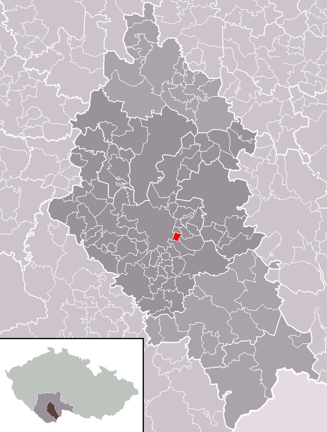 Location of Dobrá Voda u Českých Budějovic municipality within České Budějovice District and administrative area of České Budějovice as a Municipality with Extended Competence.